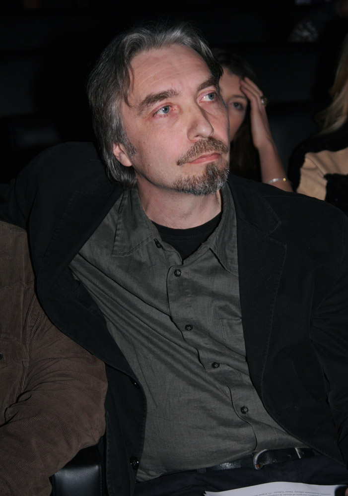 Vadim Zakharov - Russian artist. 2009